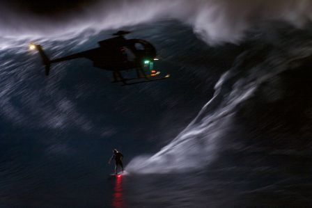 Mark Visser surfing at night on Jaws Beach in Maui. He used the helicopter for safety, a surfboard LED light and floatation vest LED light to locate him in the water. The ride earned him the nickname Night Rider